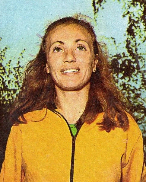 CAMPIONI DELLO SPORT 1972/73-NIKOLIC (JUG)-ATLETICA LEGG.-rec